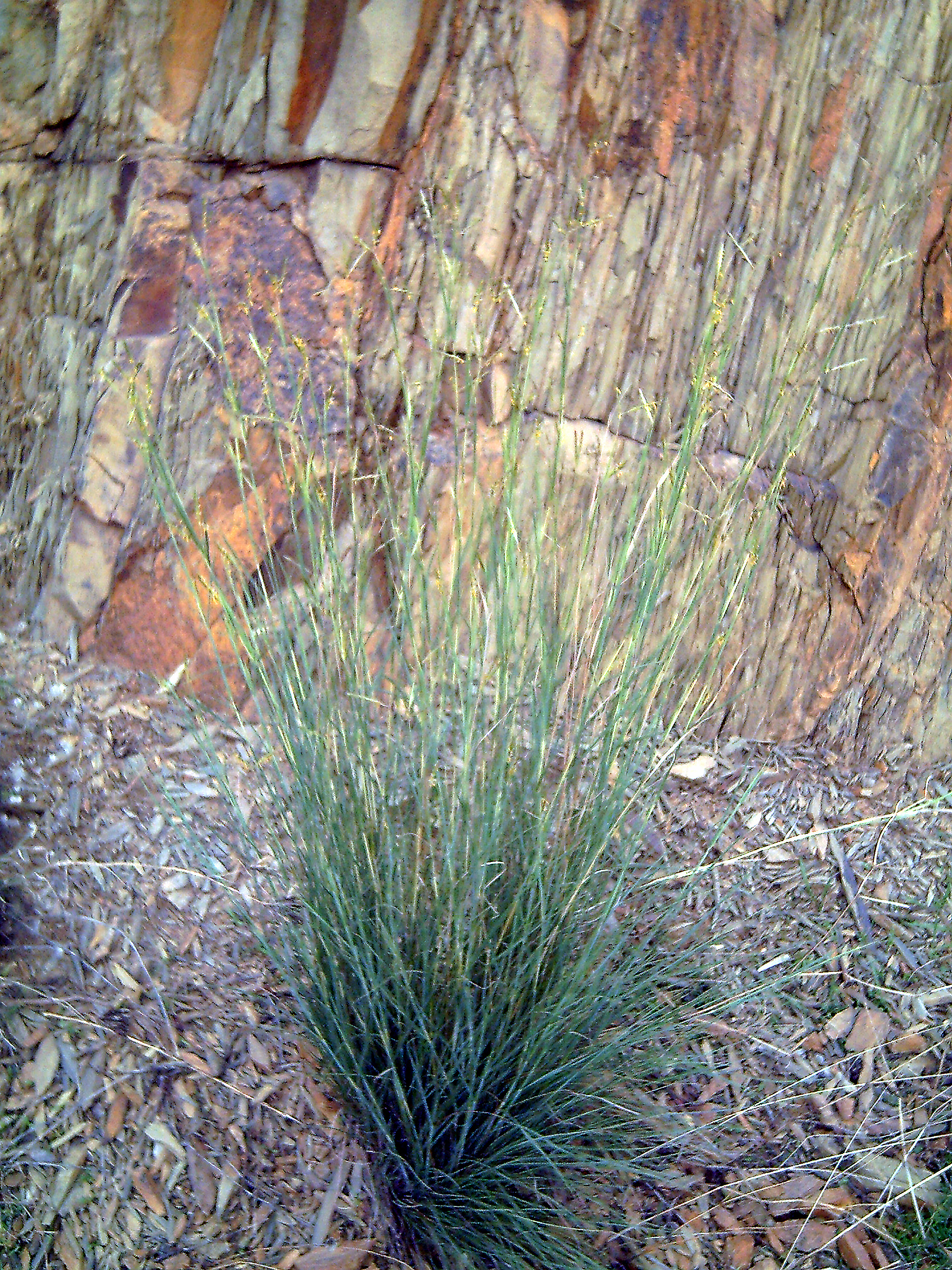 Hyparrhenia hirta habitus, Mestanza, Valle de Alcudia, Spain